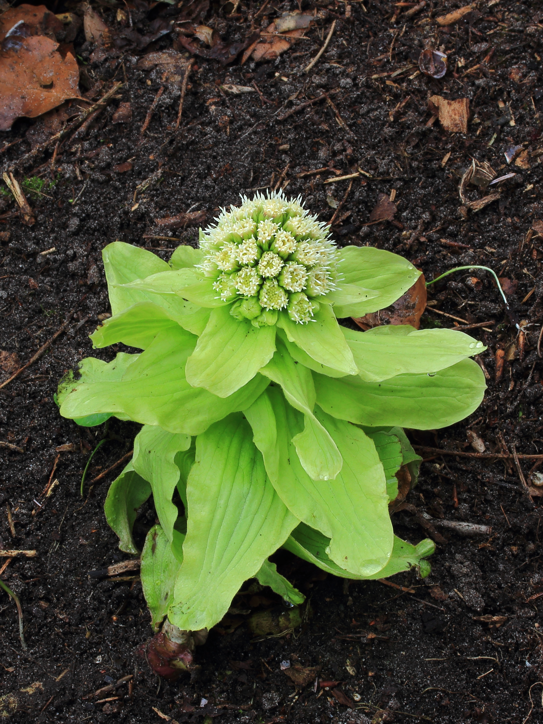 Button rosette of Japanese butterbur (Petasites japonicus).